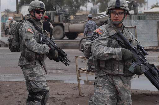 U.S. Army Spcs. Jon Reiser and Scottie Marin provides protection in the Shaab-Ur section of Baghdad, Iraq, Feb. 16, 2007, during a joint mission with Iraqi National Police officers to clear a route for coalition forces to travel safely. The Soldiers are from Bravo Company, 1st Battalion, 23rd Infantry Regiment, Fort Lewis, Wash. (U.S. Army photo by Spc. Elisha Dawkins) Date Shot: Photographer: SPC ELISHA DAWKINS